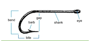 I produced it myself from File:Fishhookanatomy.jpg, already on this site and identified as PD -- US gov.